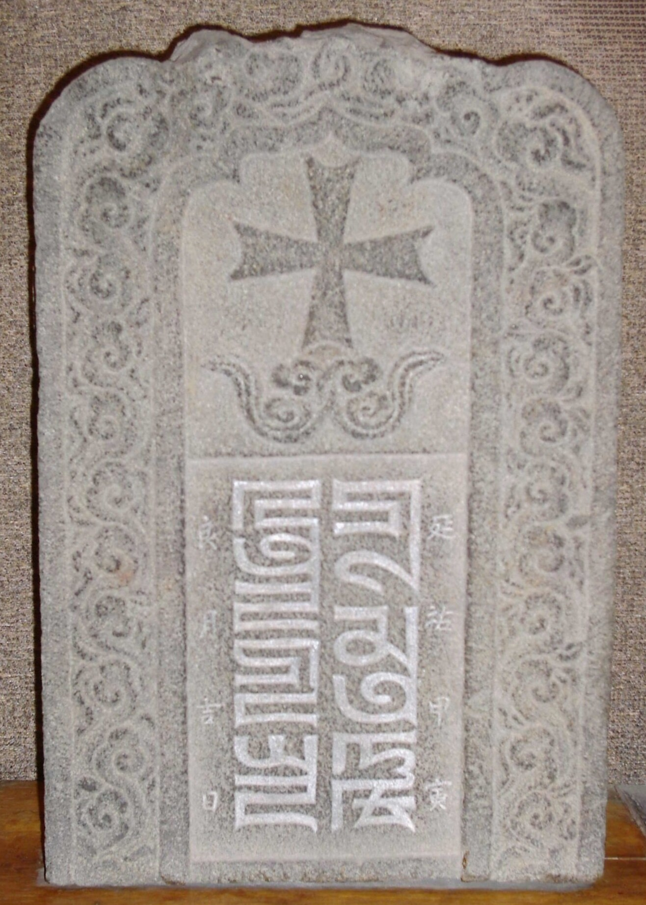 Gravestone with 'Phags-pa inscription (dated 1314), from Quanzhou, China.Phags-pa inscription: ꡖꡟꡃ ꡚꡦ ꡗꡃ ꡚꡞ ꡏꡟ ꡈꡓ [ꞏung shė yang shi mu taw = wēngshě yáng-shì mùdào 翁舍楊氏墓道] "Tomb memorial of Yang Wengshe".Chinese inscription on either side: 延祐甲寅 | 良月吉日 [yányòu jiǎyín | liángyuè jírì] "In the cyclical year jiayin [year of the wooden tiger = 1314] of the Yanyou period, on a good month and an auspicious day".